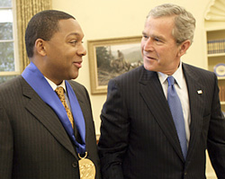 President George W. Bush with Wynton Marsalis, 2005 National Medal of Arts recipient.